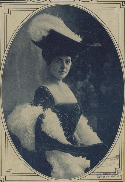 Julia Dent Cantacuzène Spiransky-Grant, Princess Cantacuzène (1876-1975), grandchild of Ulysses S. Grant.